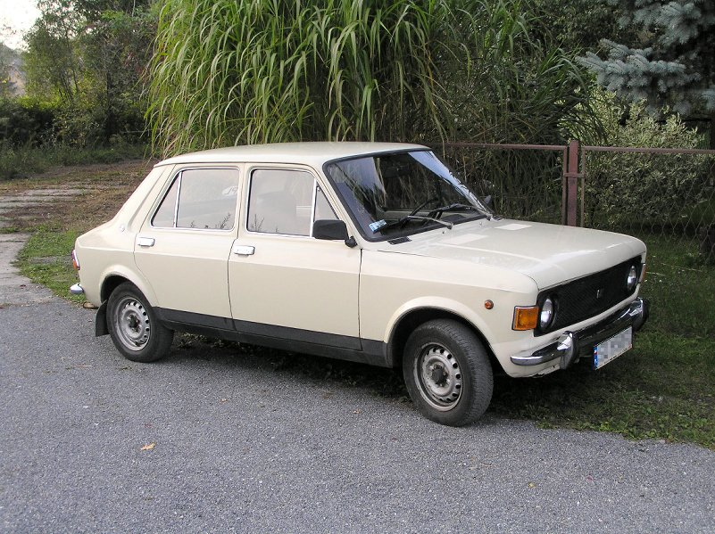 Zastava 1100P from 1977 (mounted in FSO in Poland)